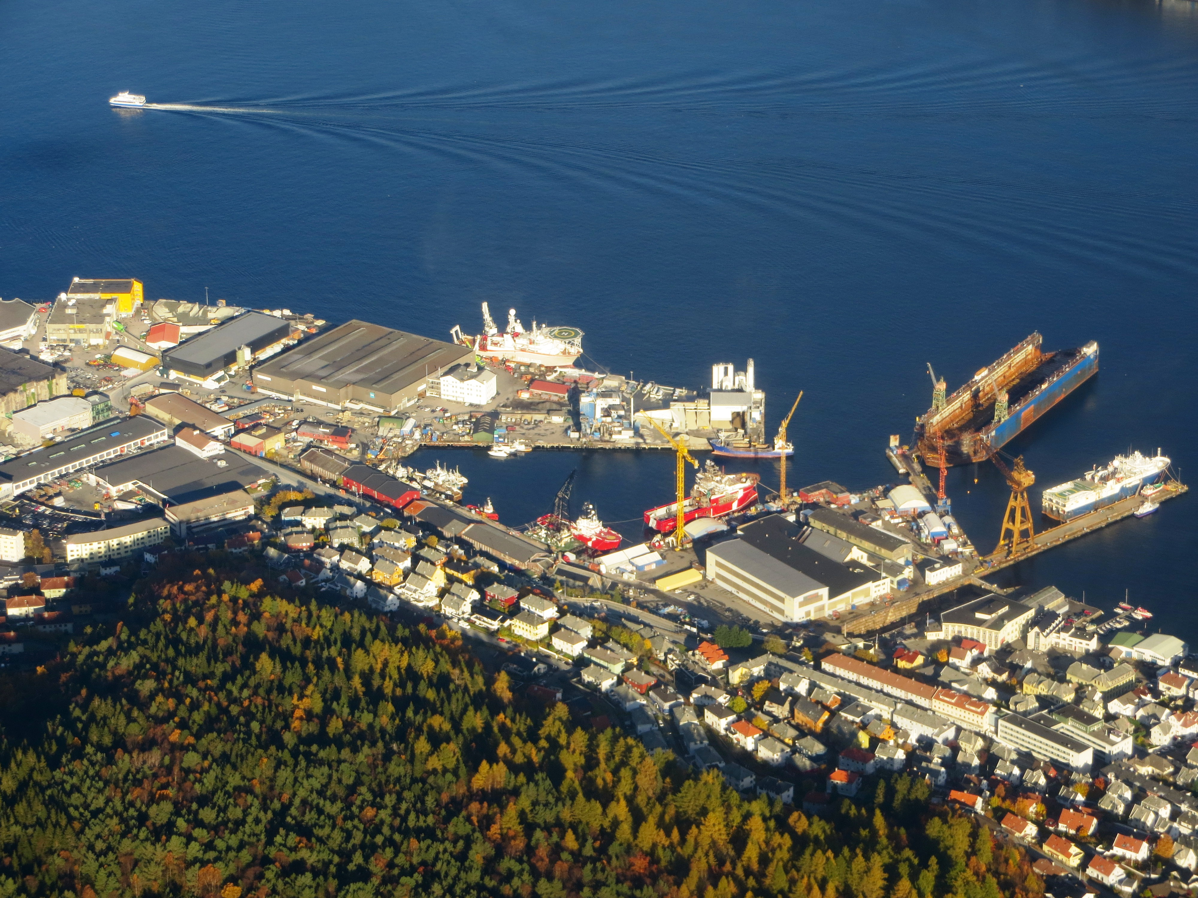 Laksevåg in west-central bergen, Norway.